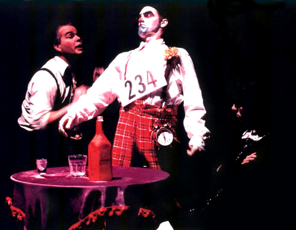 A production still from the opera "Everyday, Newt Burman" by John Moran. Presented by Ridge Theater at La Mama e.t.c., New York City (1993)